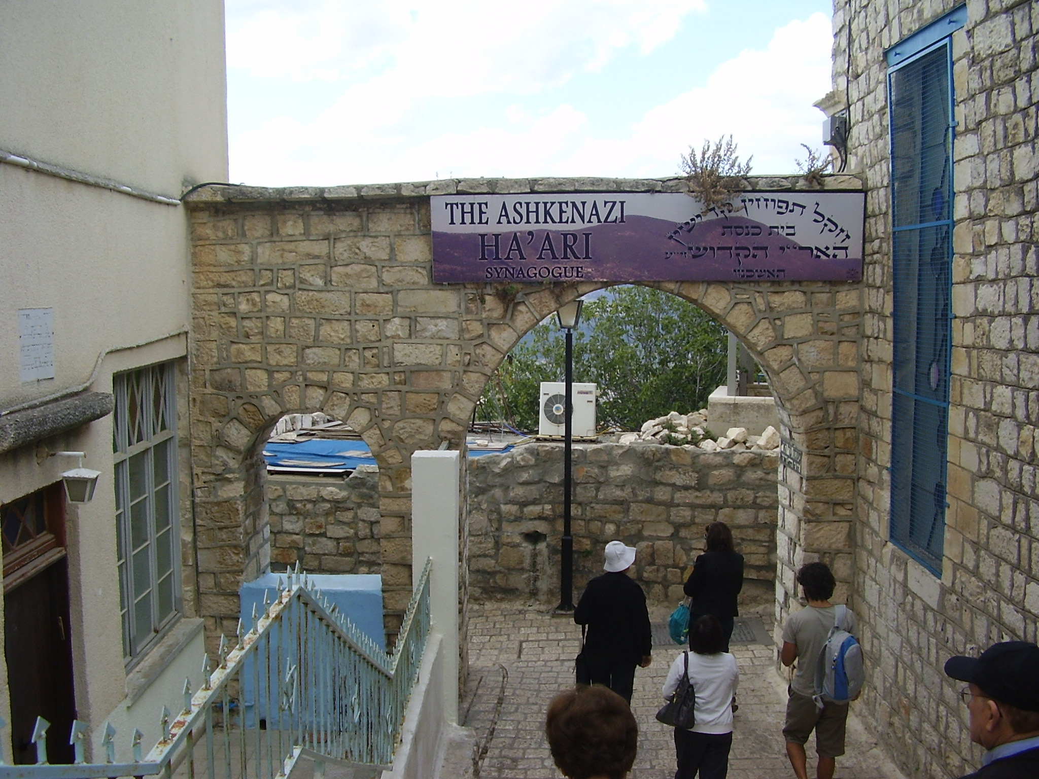 Entrance to the Ashkenazi Ha'ari Synagogue